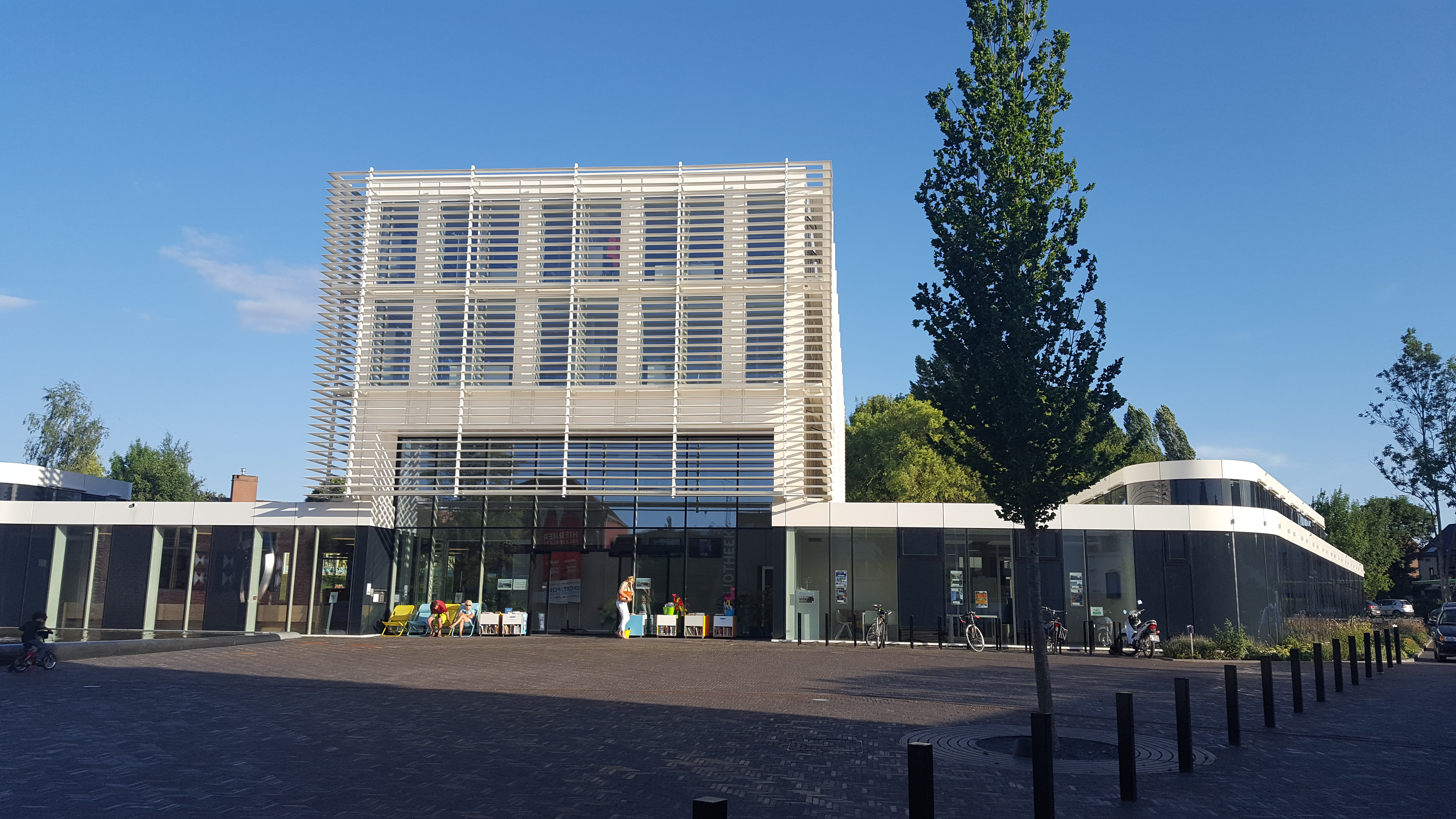 Lecture Wiki Loves Public Space & Ternat, 20 July 2017, in the library of Ternat, Belgium